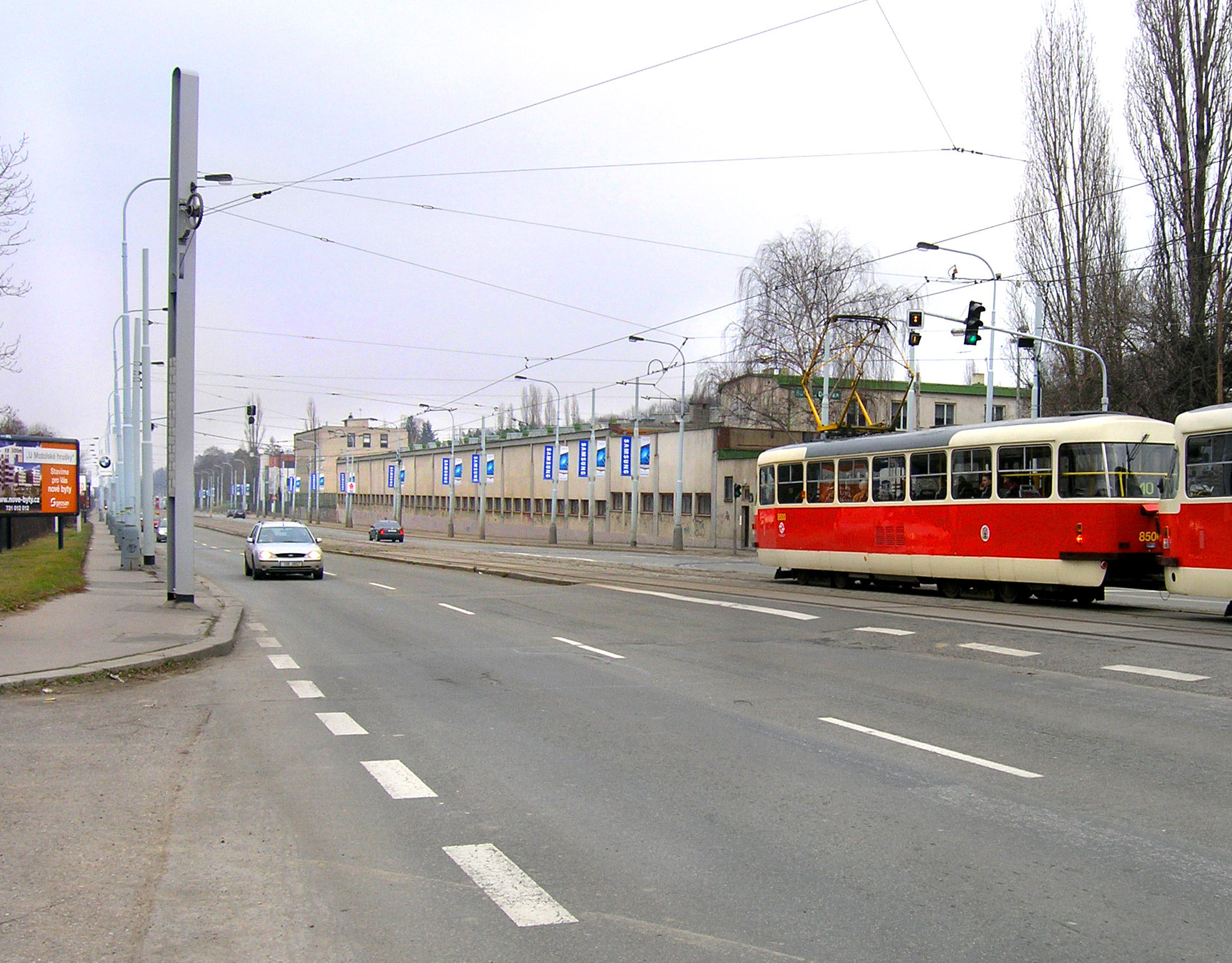 Plzeňská street and The Motol yard, Prague